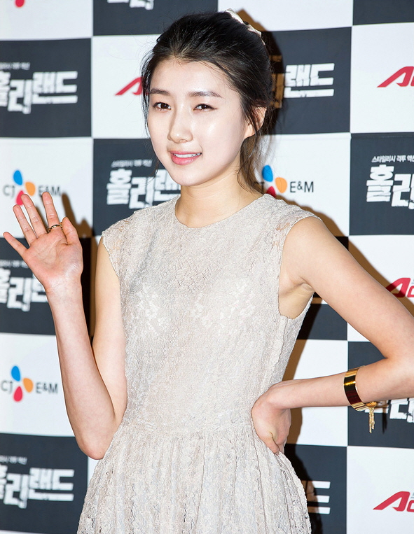 Joo Da-young in April 2012